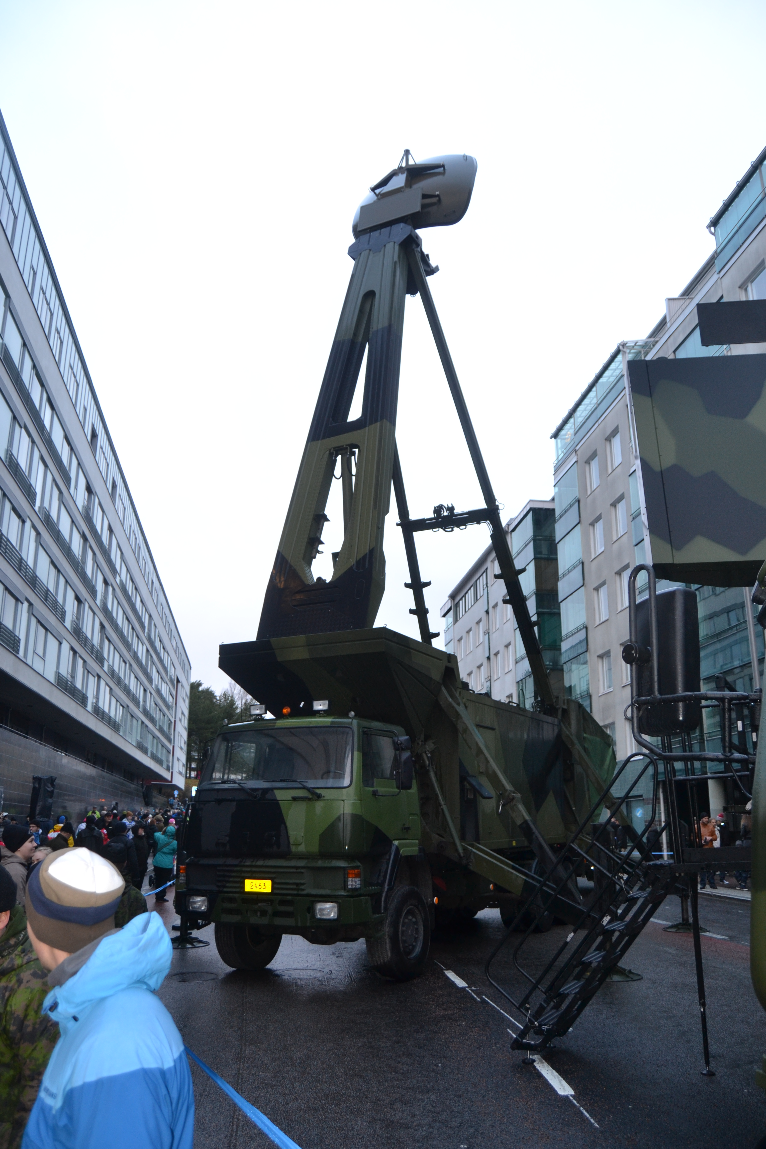 Short-range monitoring radar LÄVA in Jyväskylä, Finland